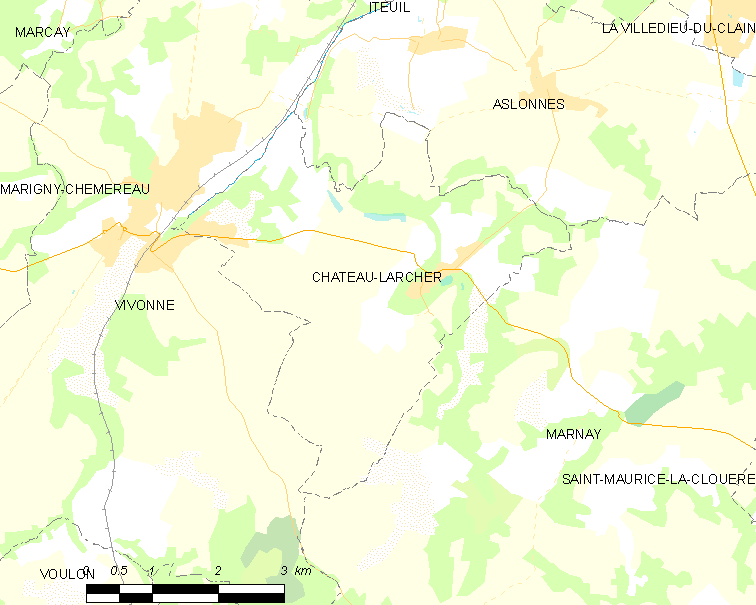 Map of French municipality Château-Larcher